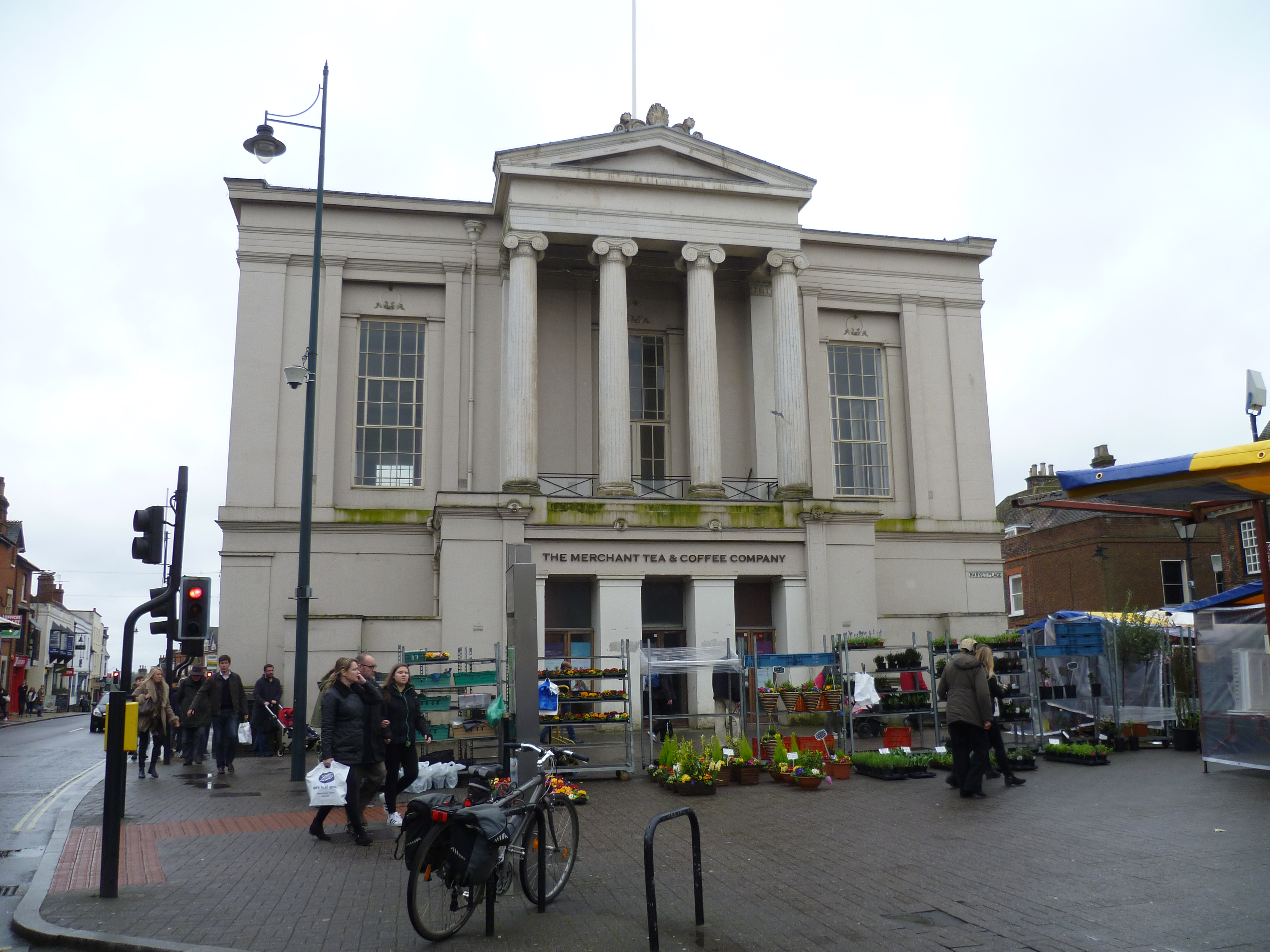 St Albans